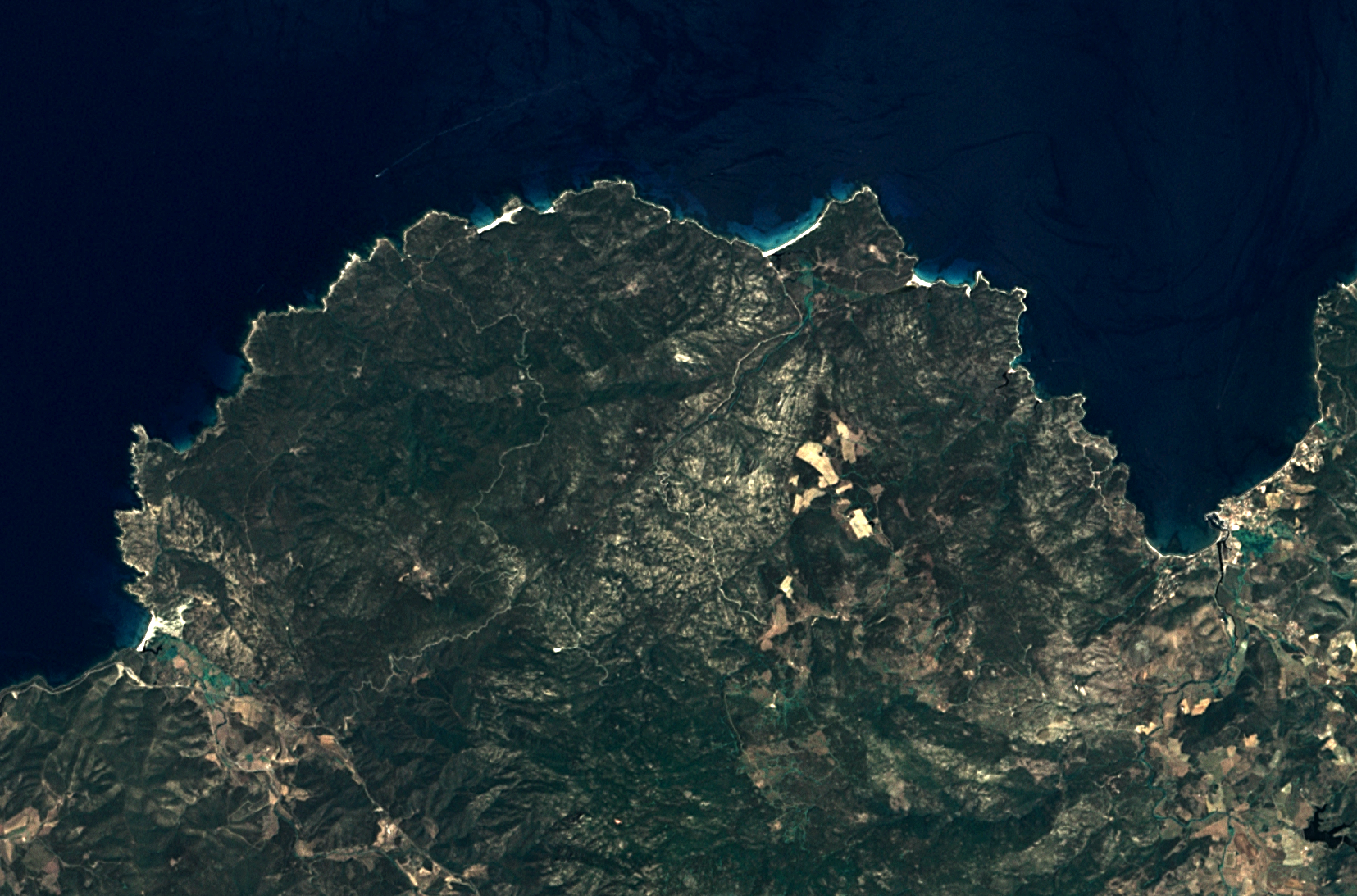 Agriates region, located on the north of Corsica (France). This satellite view was acquired by Landsat 7. The city of Saint-Florent is visible on the east.